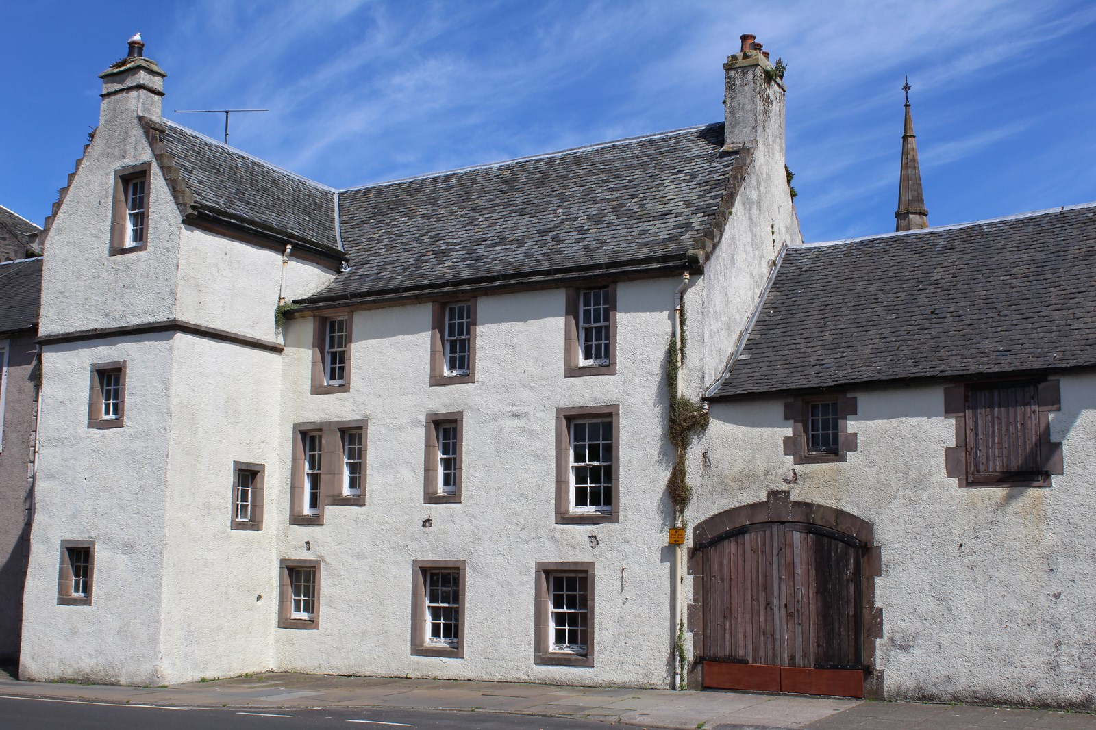 Bute Estate Office, High Street, Rothesay